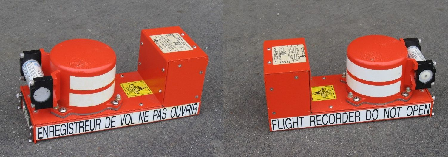 photo by user Meggar